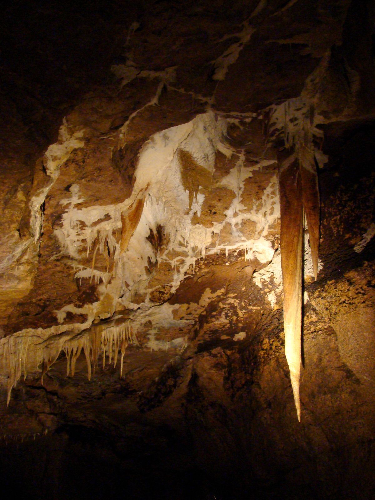 Stalactites in Marble Arch Caves, the larger is named Martel and the smaller is named Jameson, after the first explorers of the caves.